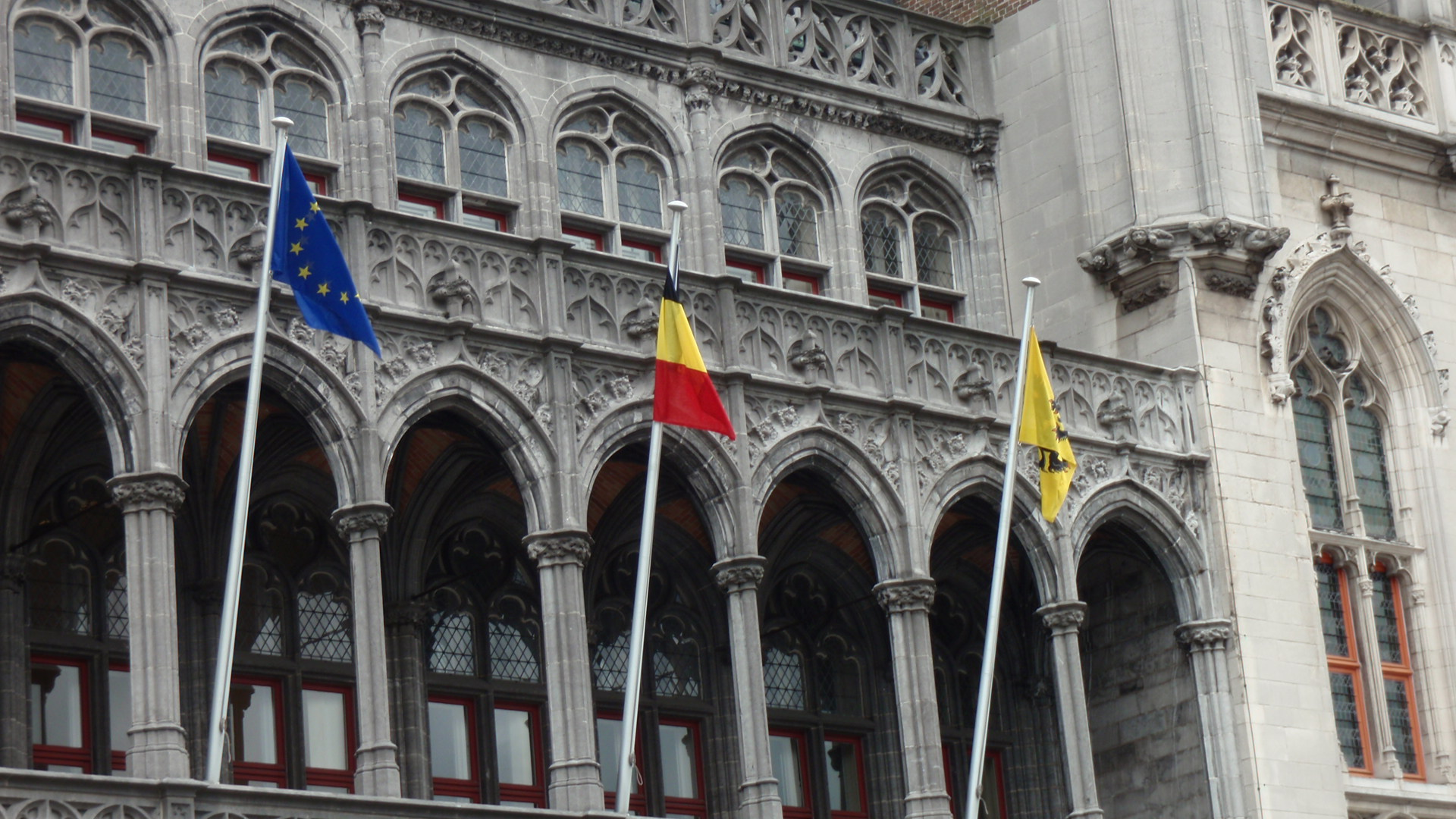 Belgium Church in Ypres